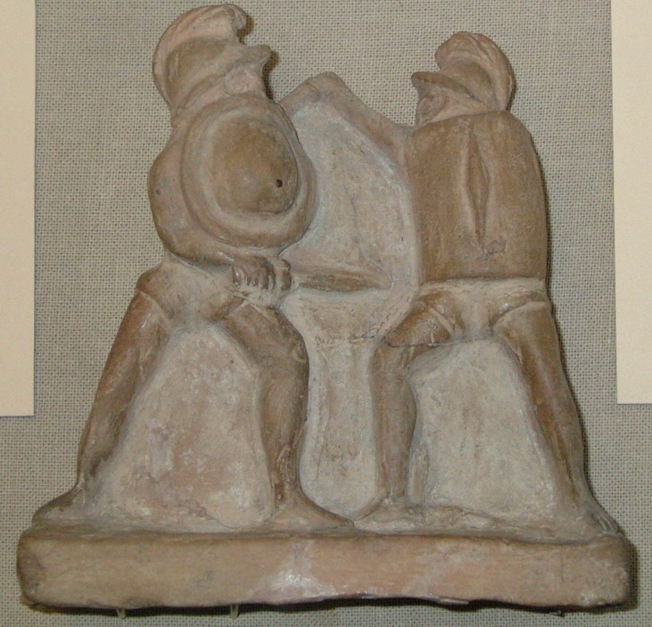 Greek pottery from the British Museum, London showing 2 Gladiators, a Hoplomachus fighting a Thraex. Griechiche Terracotta aus dem Britischen Museum London. 2 Gladiatoren, ein Hoplomachus, der bereits seine Lanze verloren hat kämpft gegen einen Traex. Poterie grecque du British Museum, Londres, Gladiatores Hoplomachus vs. Thraex.